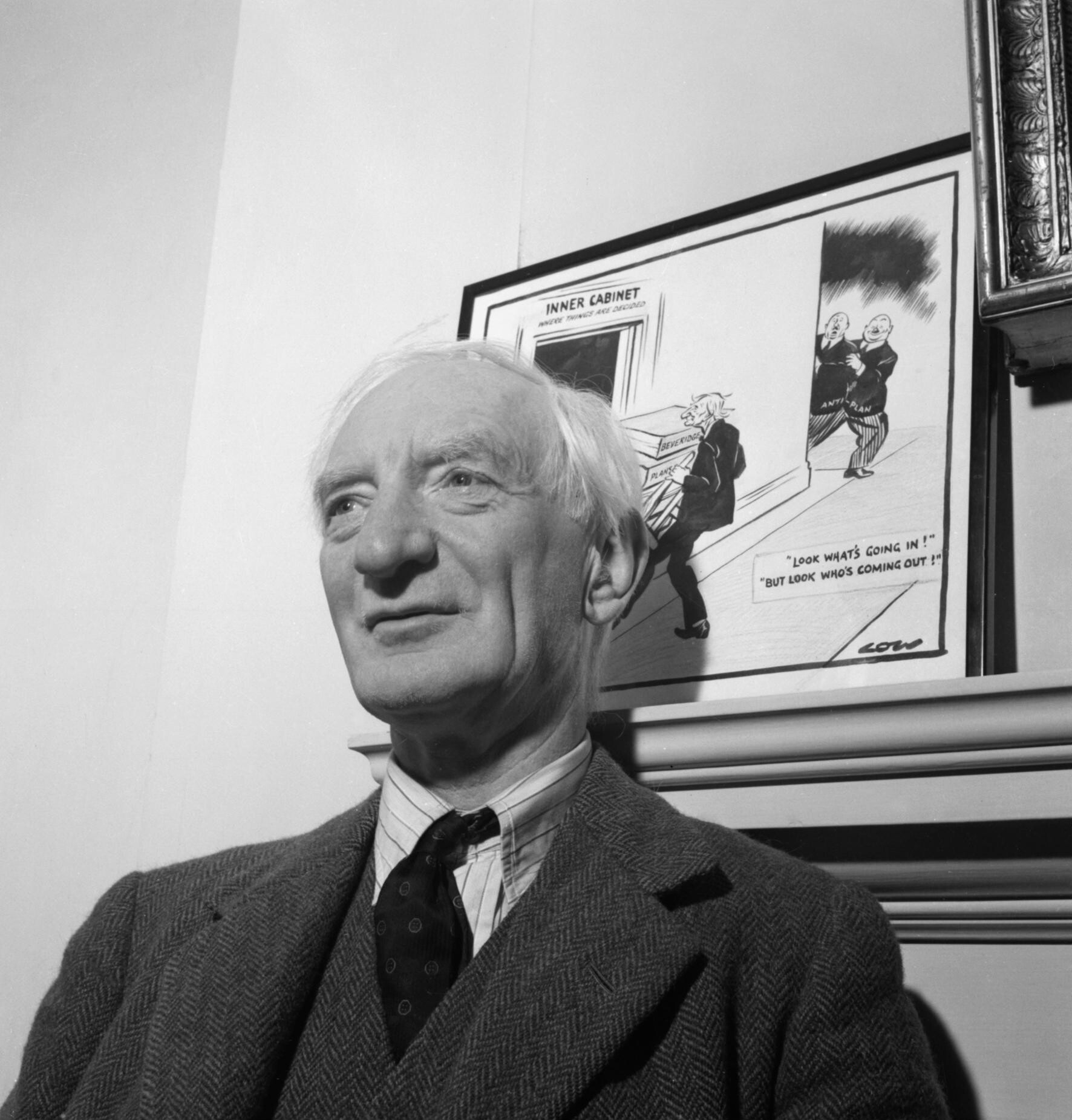 Sir William Beveridge in his study at University College Oxford, 1943. A head and shoulders portrait of Sir William Beveridge in his study at University College Oxford. He is standing in front of a cartoon by Low regarding his report on Social Welfare.